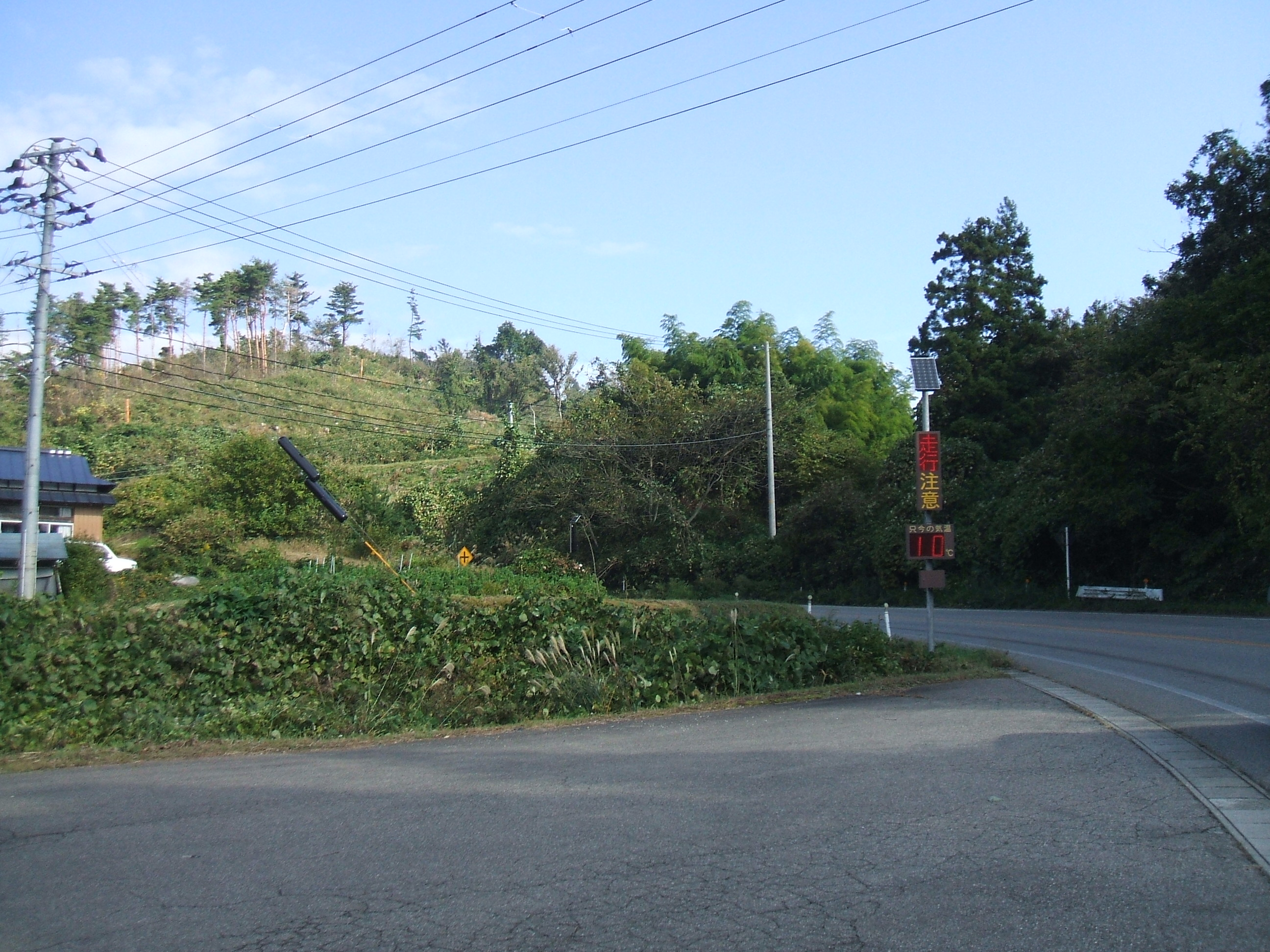 The Fukushima Prefectual Road Route 64 in Namai, Aizuwakamatsu City